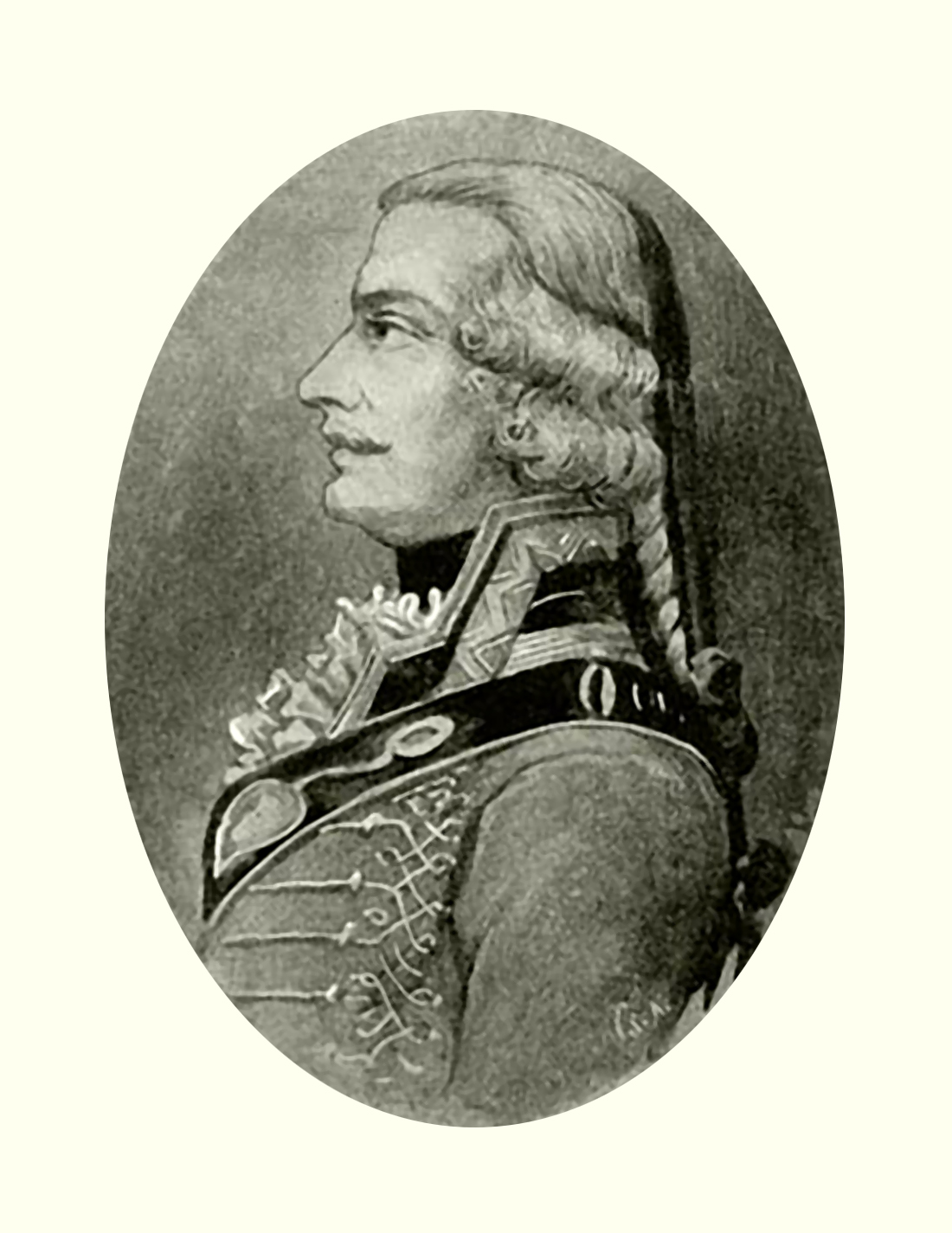 Mesko Jozsef